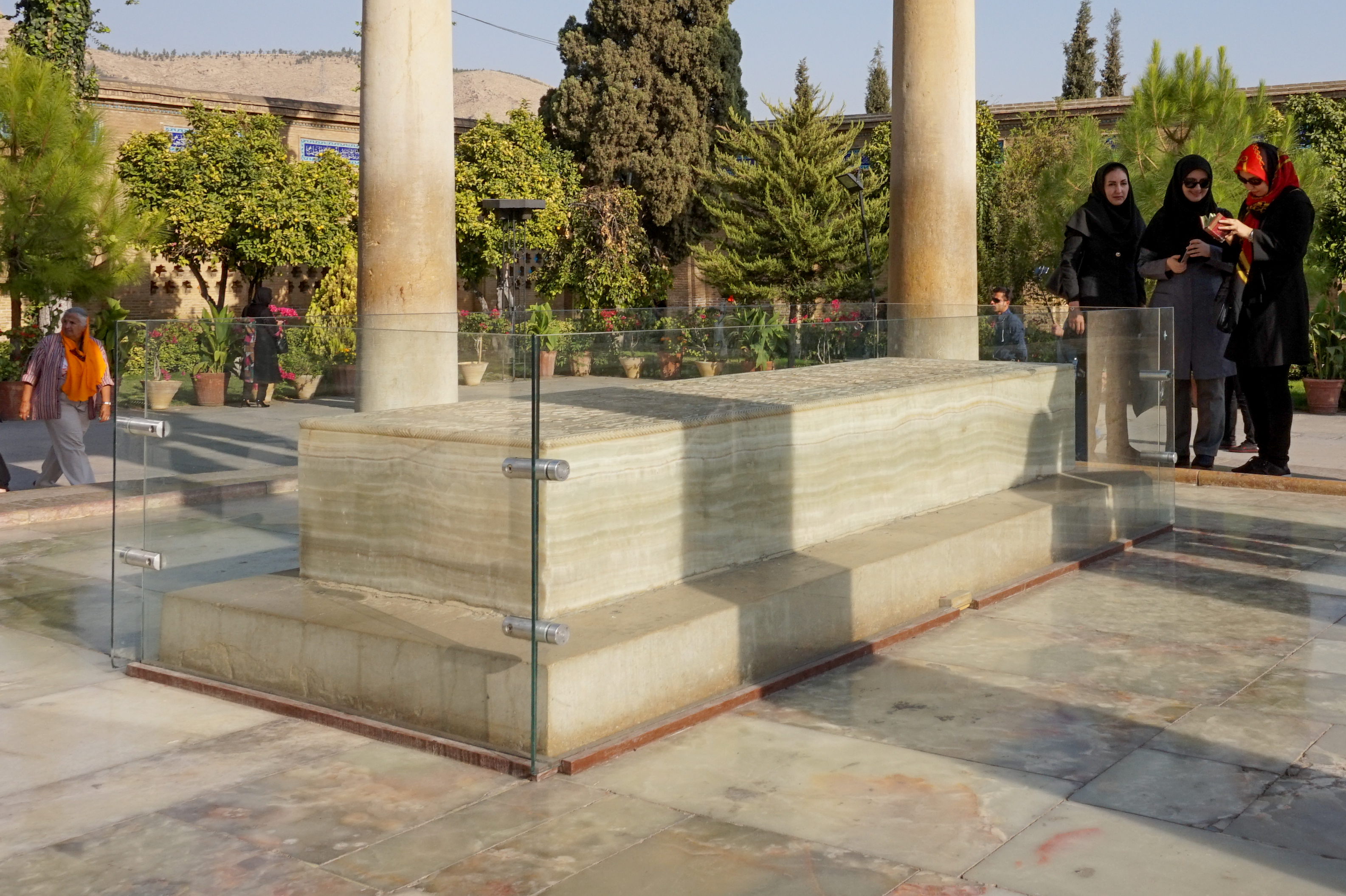 Tomb of Hafez, Shiraz, Iran